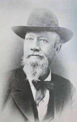 Thomas Cunningham (c. 1890) served as San Joaquin County Sheriff from 1872 to 1899.